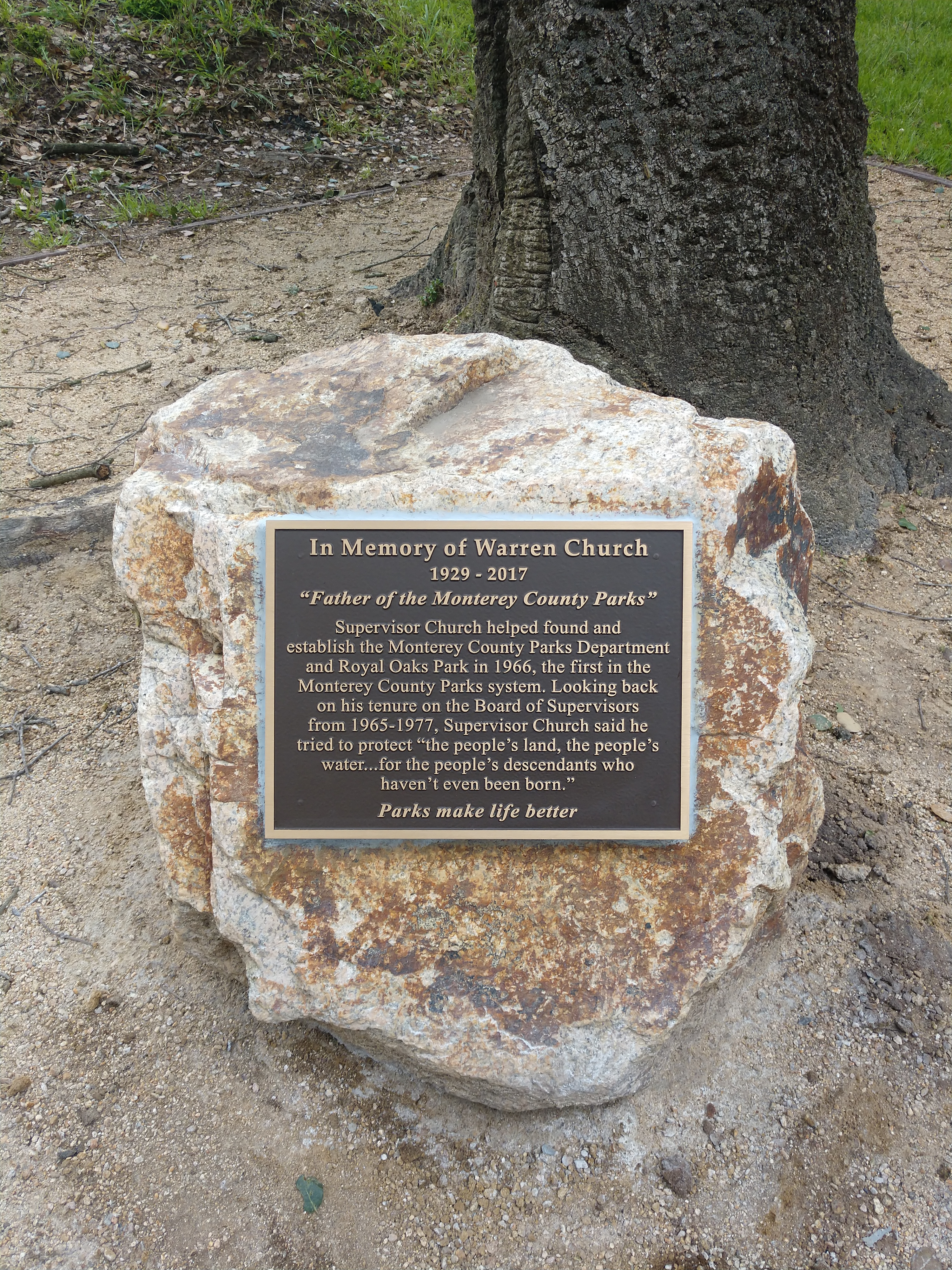 A plaque honoring former Monterey County Supervisor Warren Church for his efforts in starting the county park system and preserving the native environment and resources.